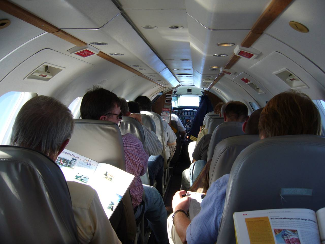 The cabin of a Fairchild Swearingen metroliner